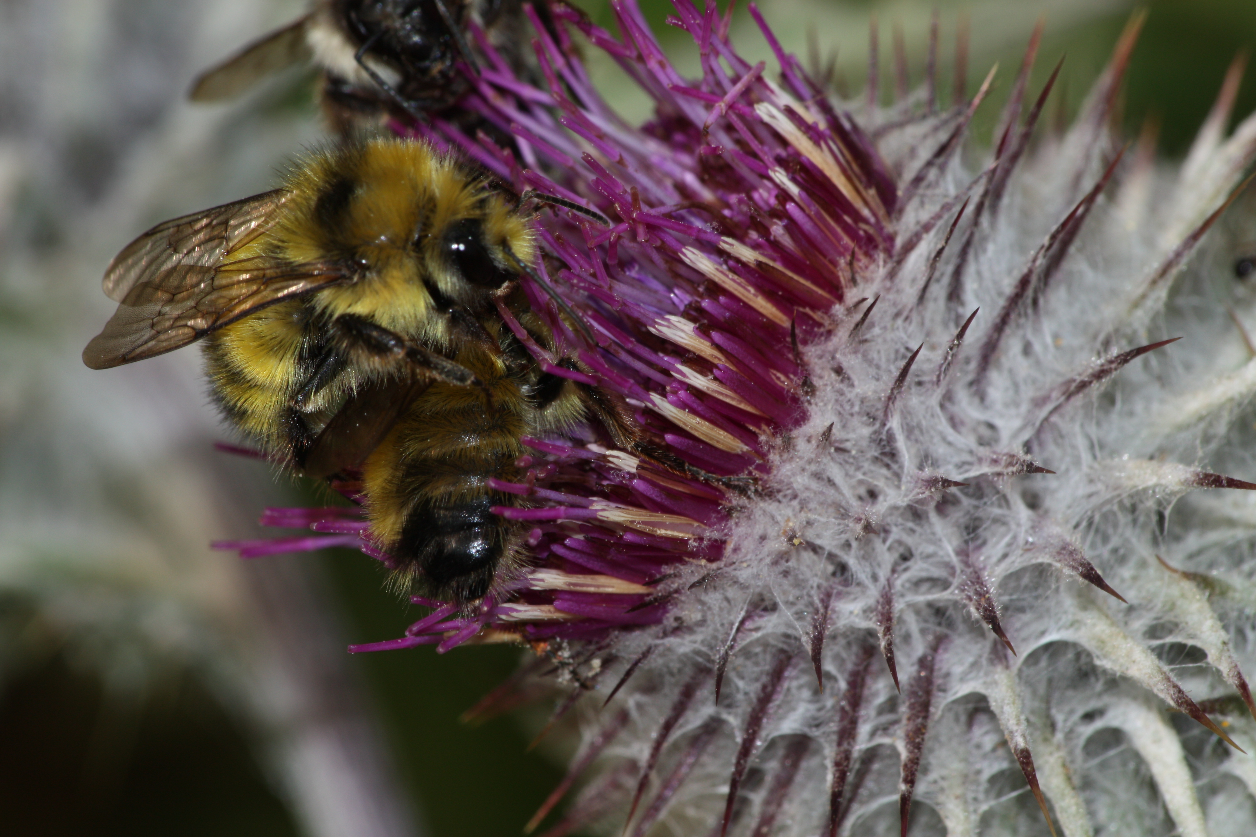 Edible Thistle, Indian Thistle Bombus sp.